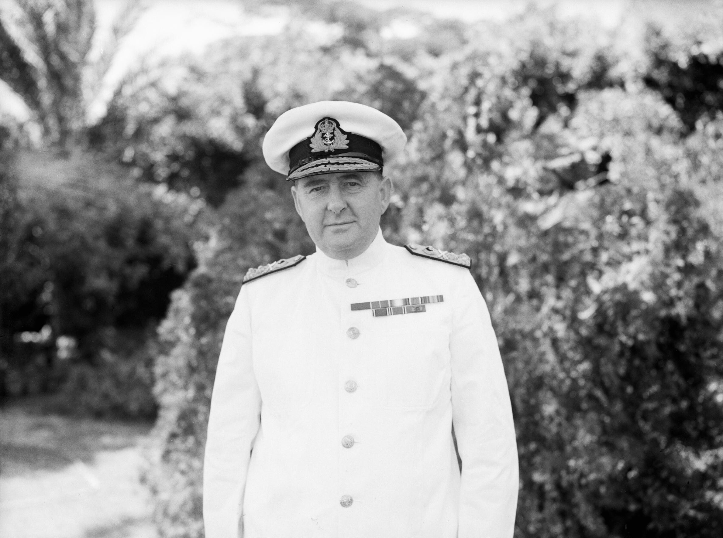 Admiral Sir Henry Harwood, Kcb, Obe, Commander in Chief, Mediterranean. 31 August 1942, Alexandria.